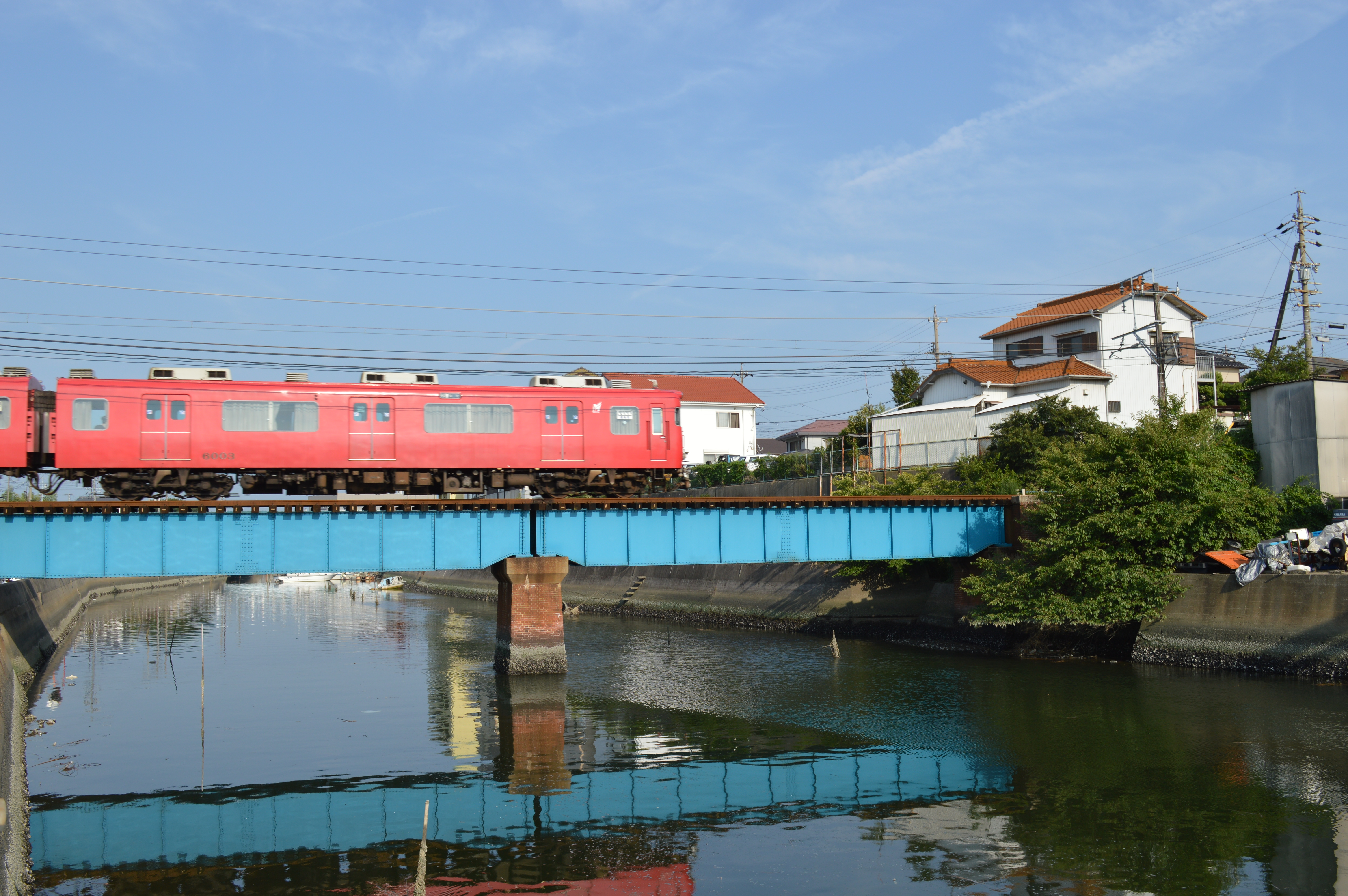 Meitetsu Mikawa Line over the Shin River in Hekinan City, Aichi Prefecture, Japan